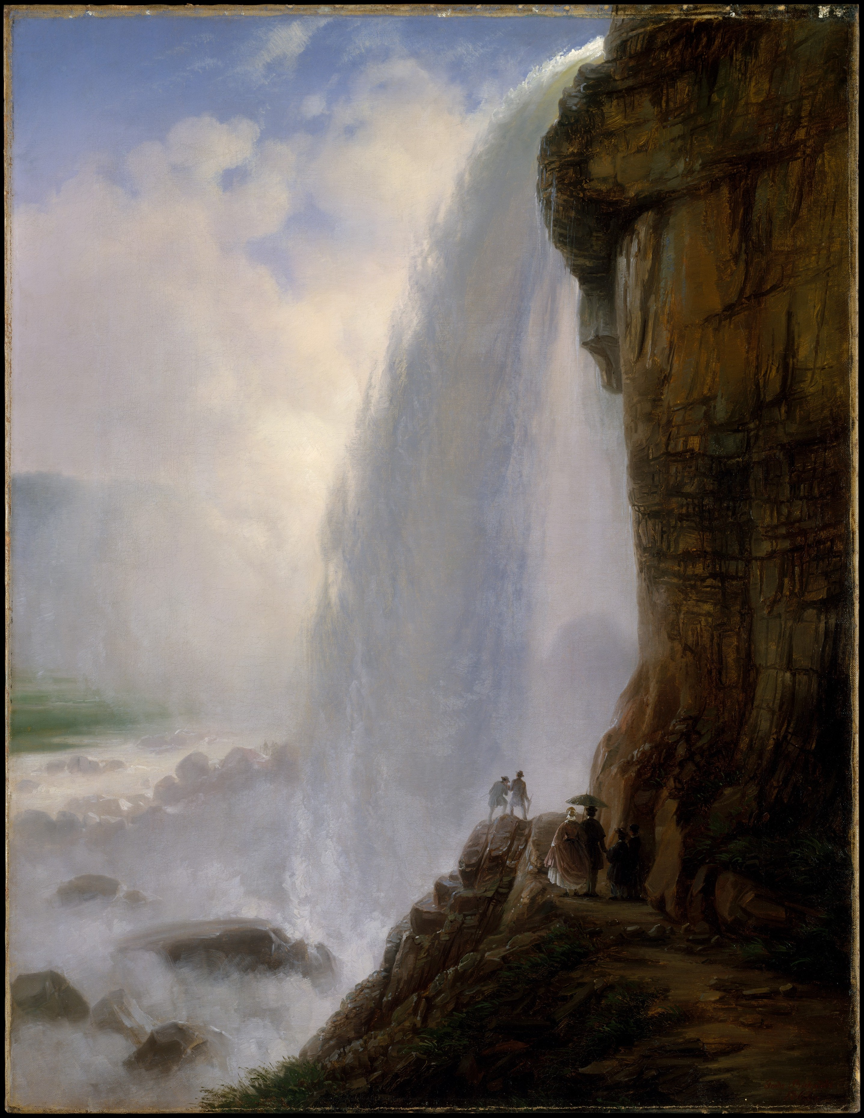 Underneath Niagara Falls Artist: Ferdinand Richardt (1819–1895) Date: 1862 Medium: Oil on canvas Dimensions: 40 x 31 1/2 in. (101.6 x 79.2 cm) Classification: Paintings Credit Line: Purchase, Judith H. Deutsch Bequest and Daniel Hammerman Gift, 1980